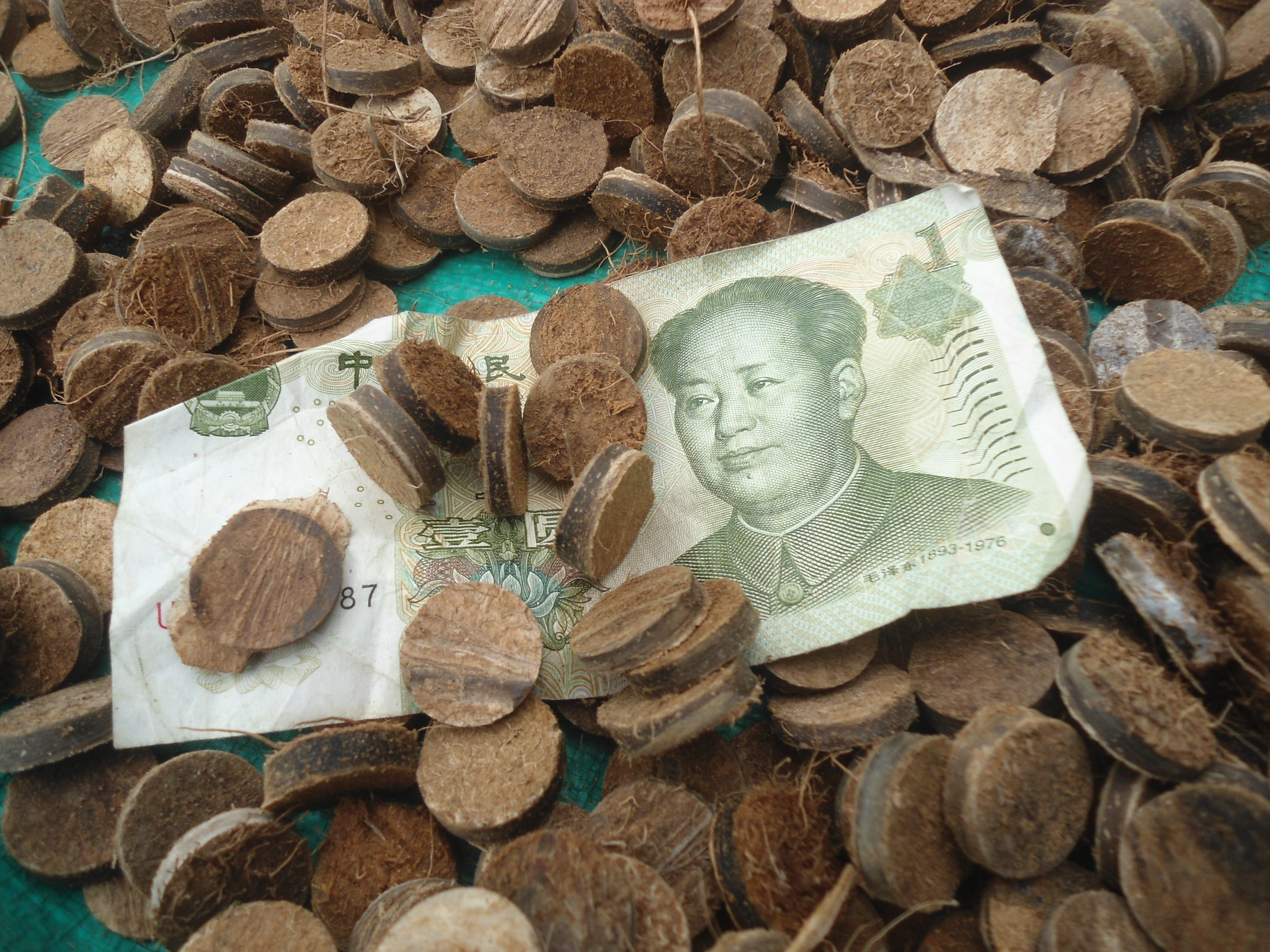 Coconut button factory in Dongjiao (east of Wenchang), Hainan, China